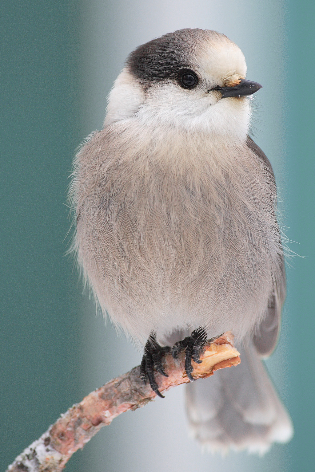 Gray Jay -- Algonquin Park, Canada -- 2005 December